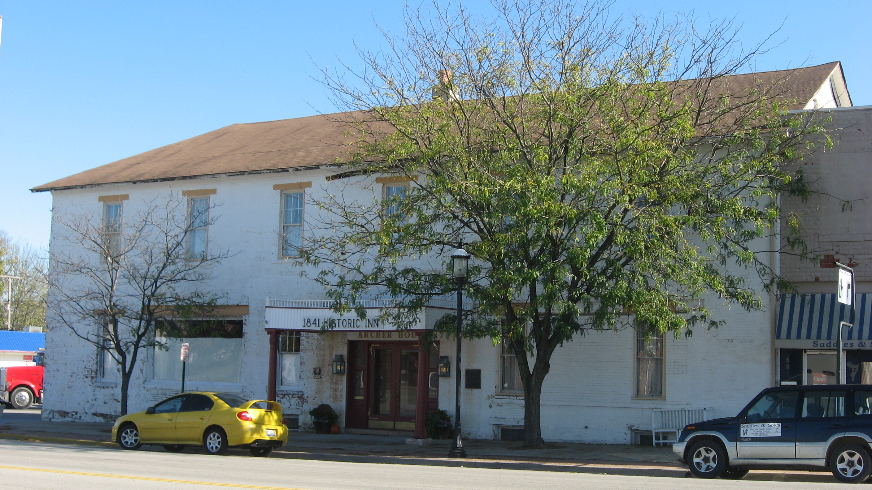 Front of the Archer House Hotel, located at 717 Archer Avenue in Marshall, Illinois, United States. Built in 1841, it is listed on the National Register of Historic Places.